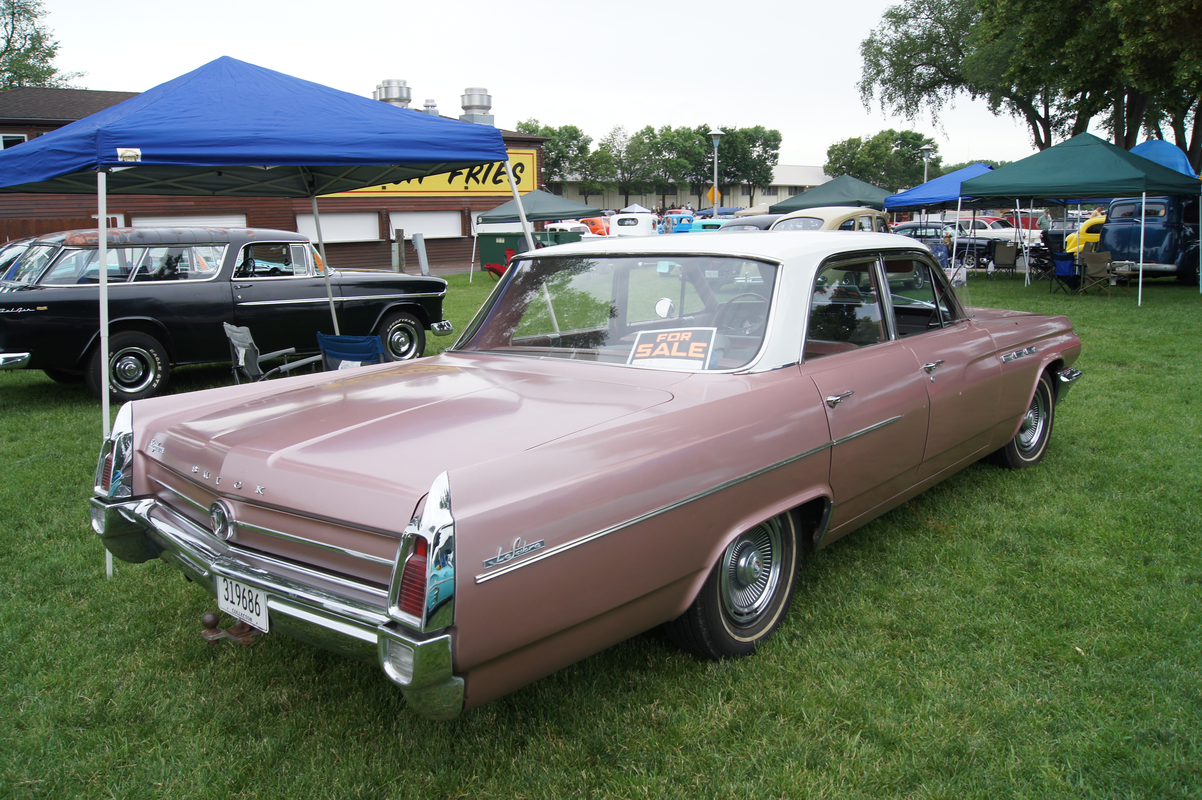 Minnesota Street Rod Association "Back to the Fifties" June 2012 Minnesota State Fairgrounds St. Paul MN